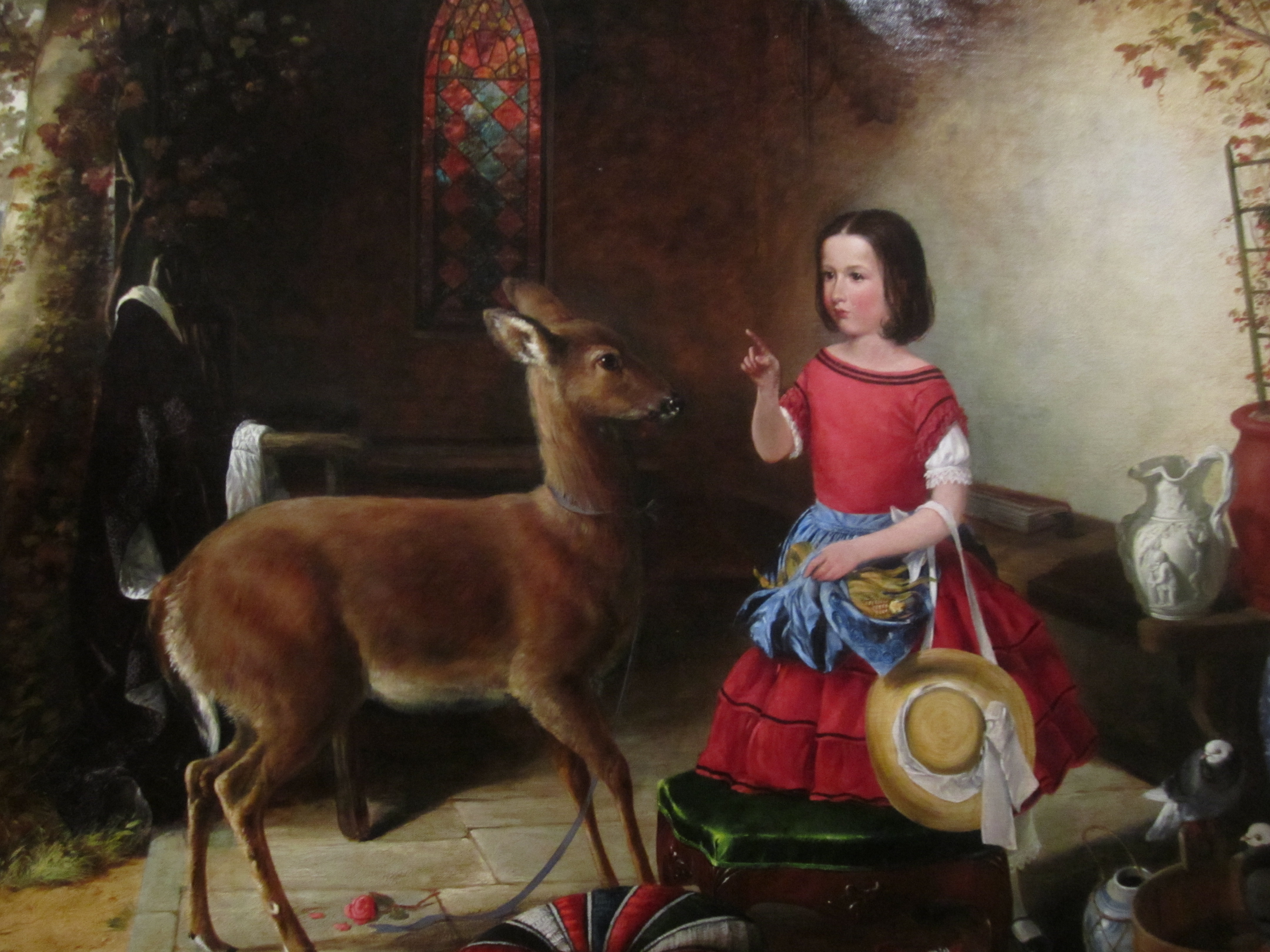 I took photo of "The Reprimand" by A.F. Tait at Brooklyn Museum, using Canon camera.